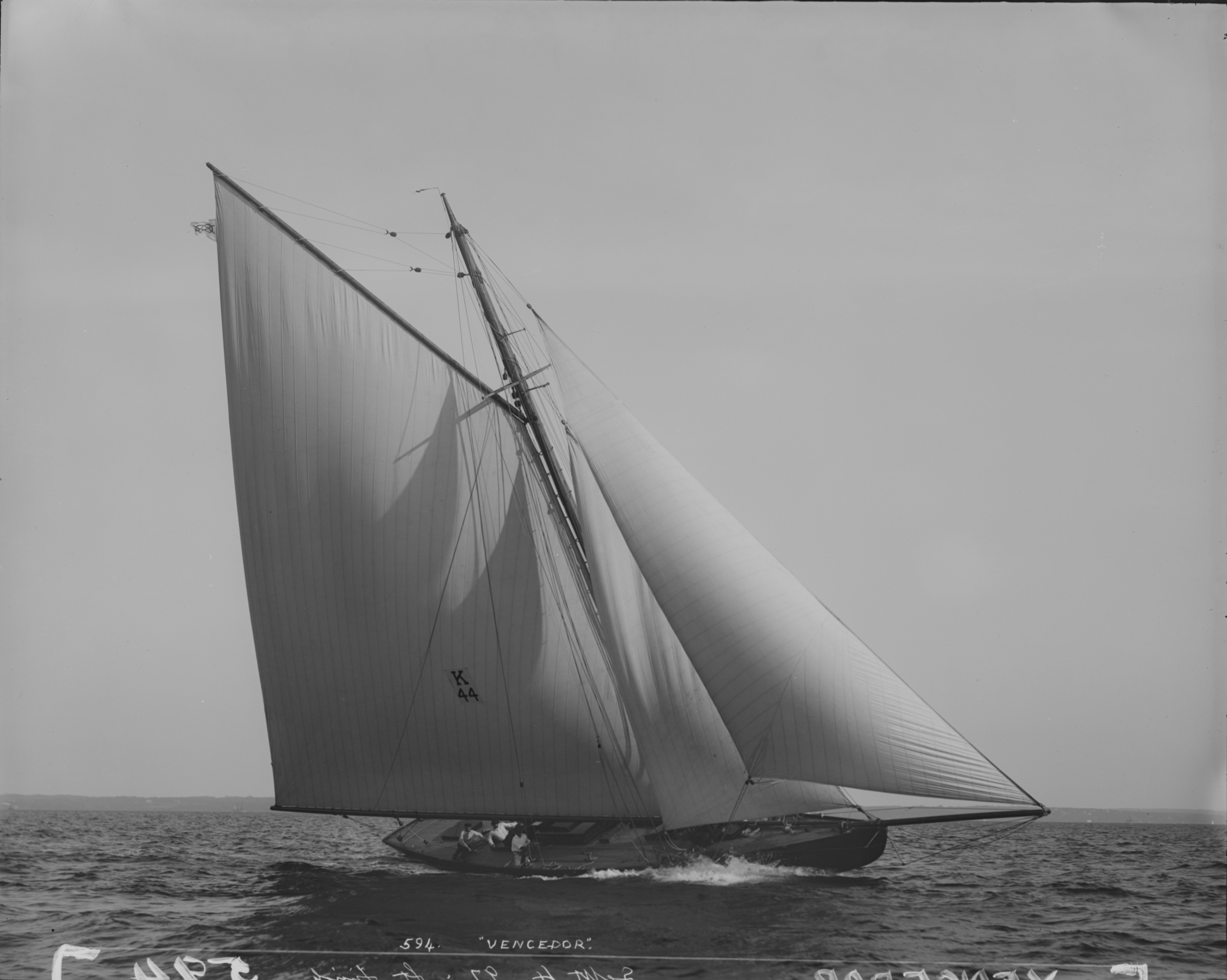 The racing sloop of Commodore H.M. Gillig, sailing on Lake Erie.